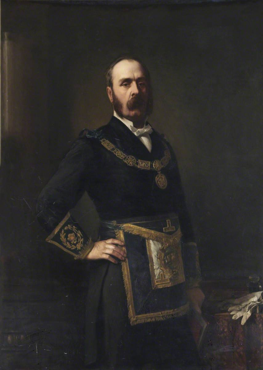 Portrait of Sir John Braddick Monckton (1832–1902), British lawyer and civil servant, Town Clerk of London for 30 years; shown in Masonic dress.